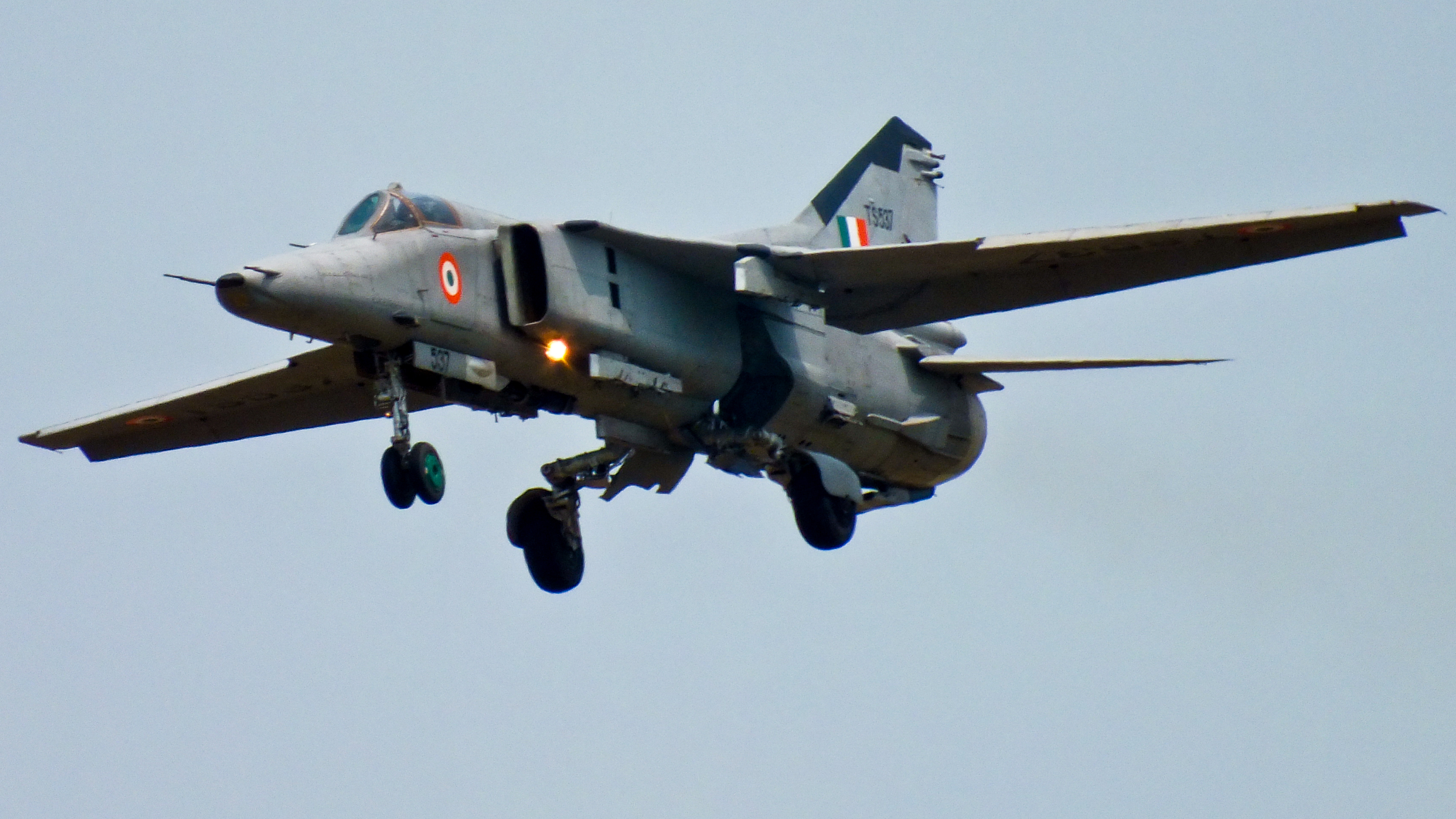 MiG-27 from No.18 Squadron, coming down to land, at Air Force Station Kalaikunda.